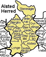 Alsted Herred Sorø Amt , Denmark. Map by Svend-Erik Christiansen, edited by user:Nico-dk . Source= (originaly at ) Author=The map is made by Svend-Erik Christiansen and edited by Nico-dk. - Wikipedia-diskussion:Kilder/Arkiv1#vedr._Sognekort is a permission (in danish) from the autor, send to me in 2004 (Nils Jepsen /Nico-dk ), before the OTRS-system was made.